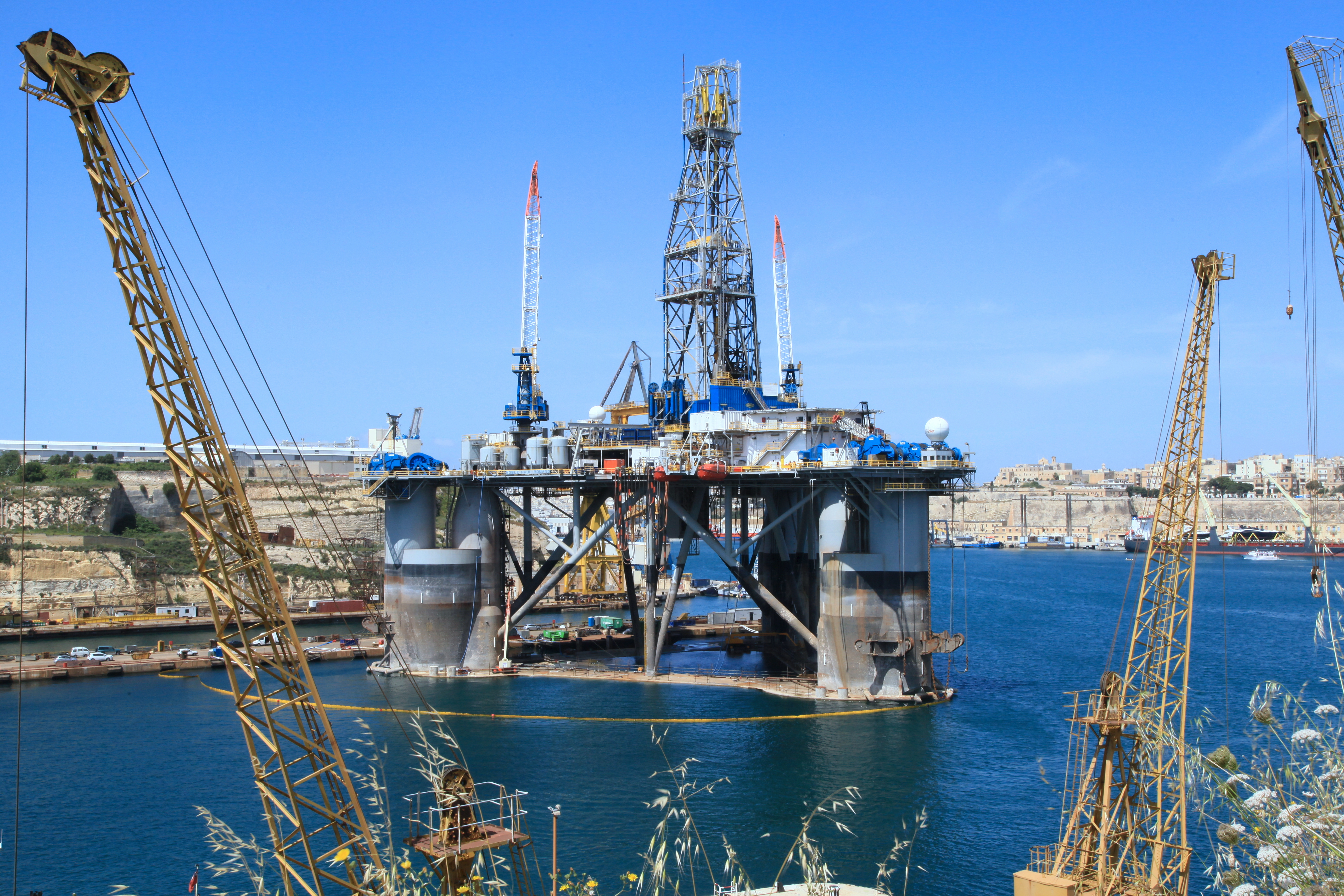 View from Triq is-Sur over the Grand Harbour Dock no. 2 in Senglea to the Grand Harbour China Dock (no. 6) in Cospicua, Malta